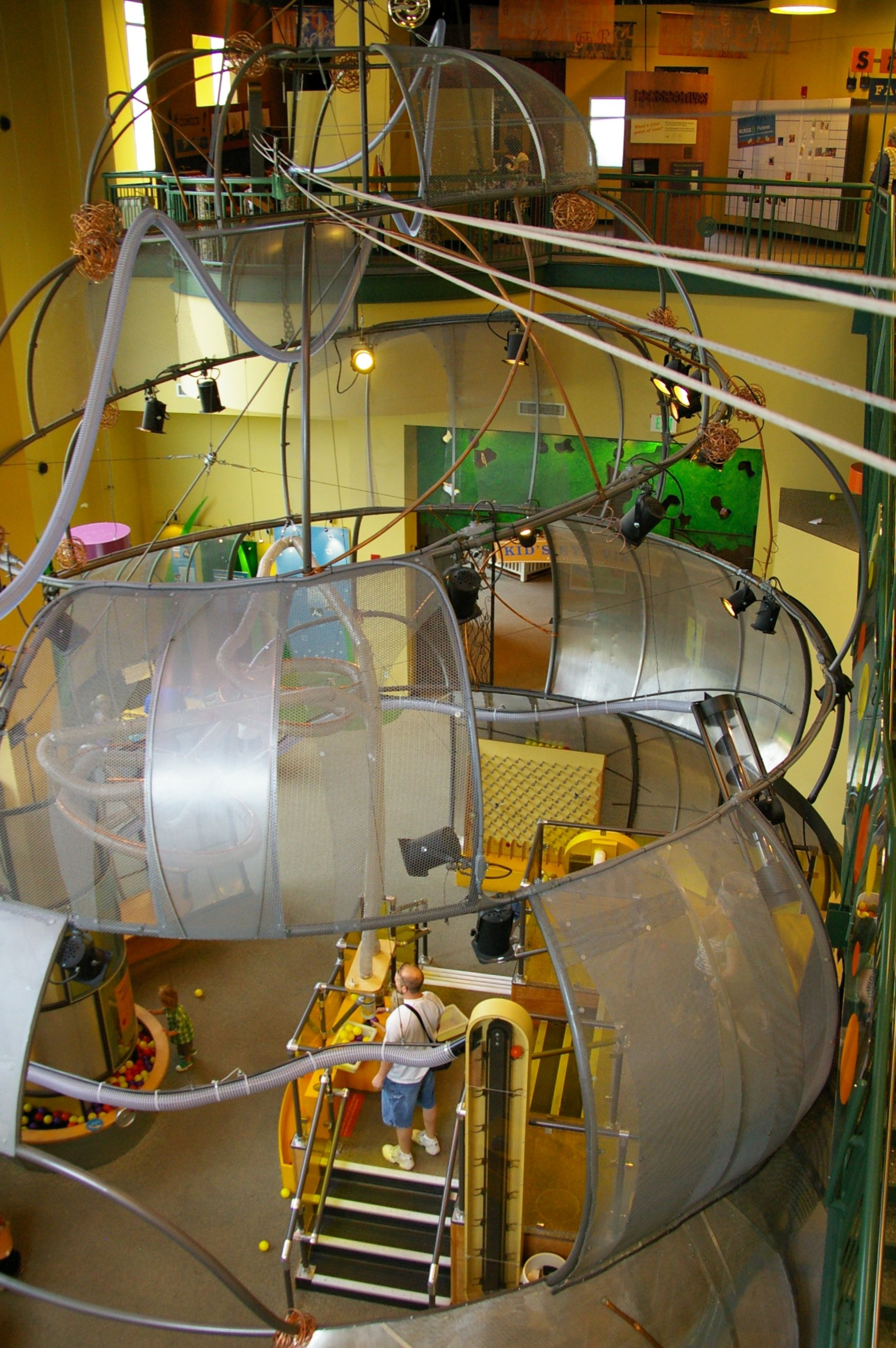 From their website: "Our 30-foot beehive greets visitors to The Garden, where children and adults together can work creatively to keep this exhibit ?buzzing? along."